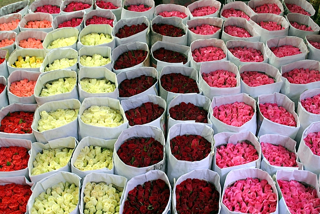 bundles of flowers in market, Bangkok, Thailand